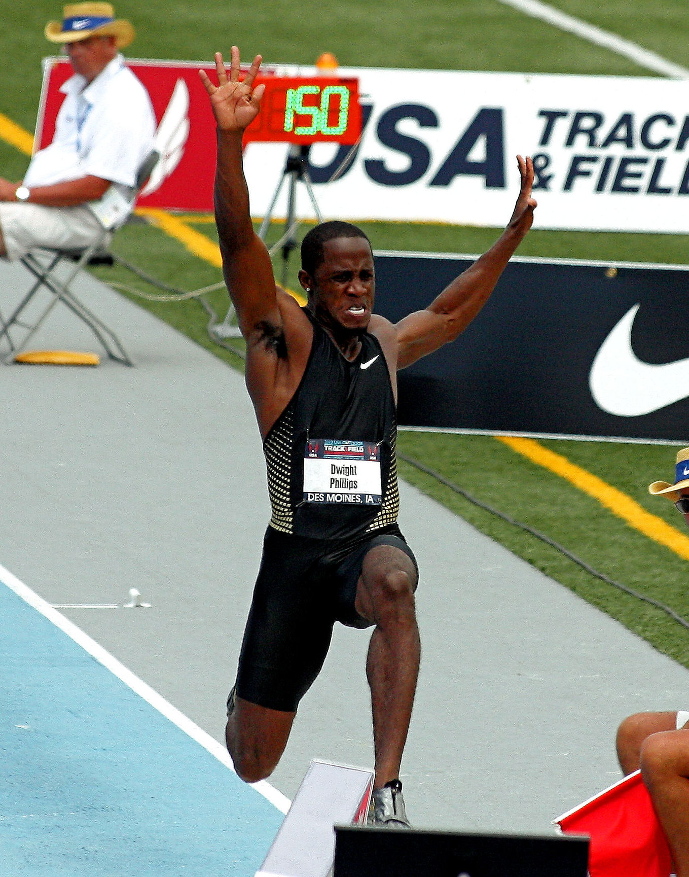 2004 Olympics gold medalist Dwight Phillips on his way to winning the national title in the long jump.